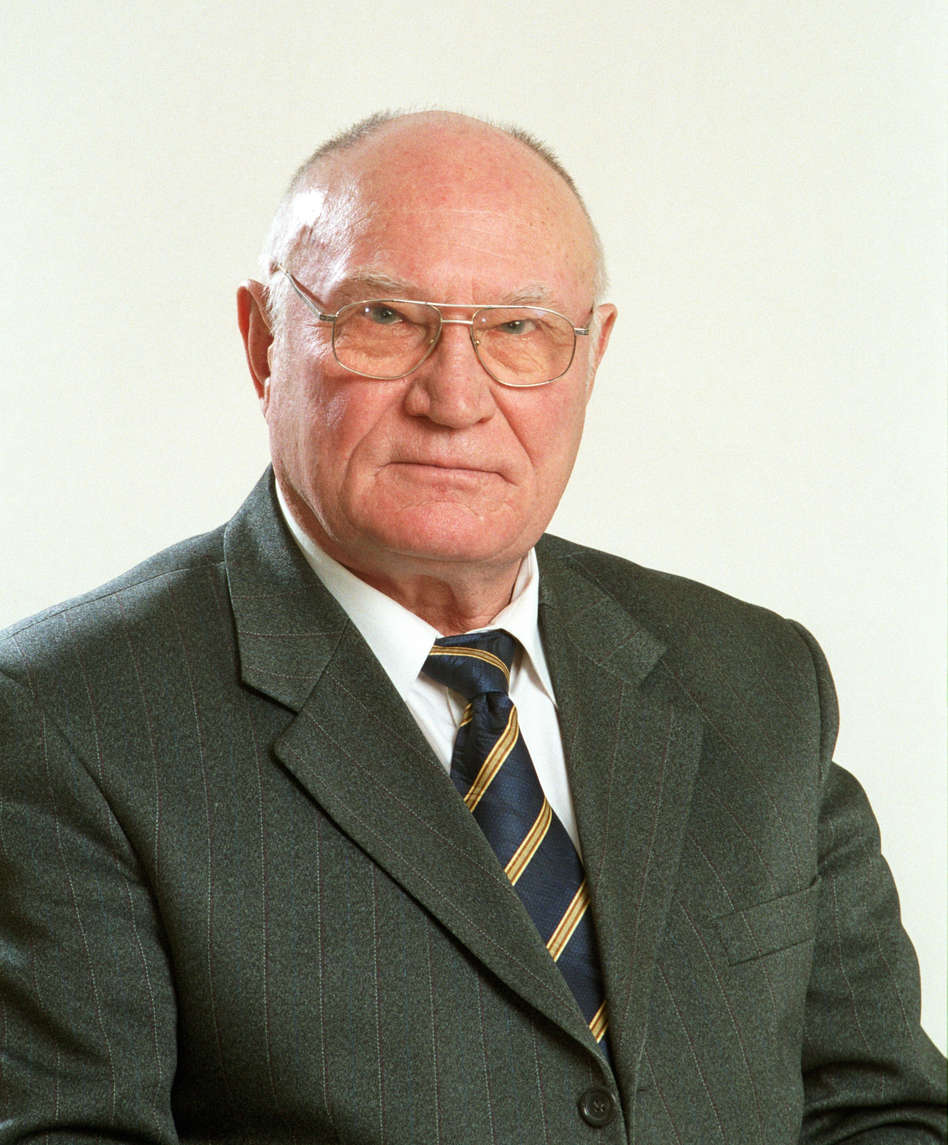 Deputy of the 9th Saeima Vilnis Edvīns Bresis